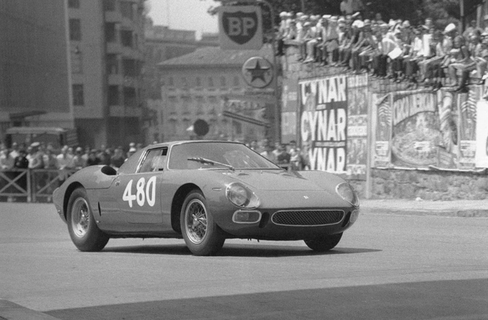 Entry #480 and WINNER of the Trieste-Opicina hillclimb on 18 July 1965 was this 1964 Ferrari 250 LM s/n 6217 driven by its owner Eduardo Lualdi-Gabardi.